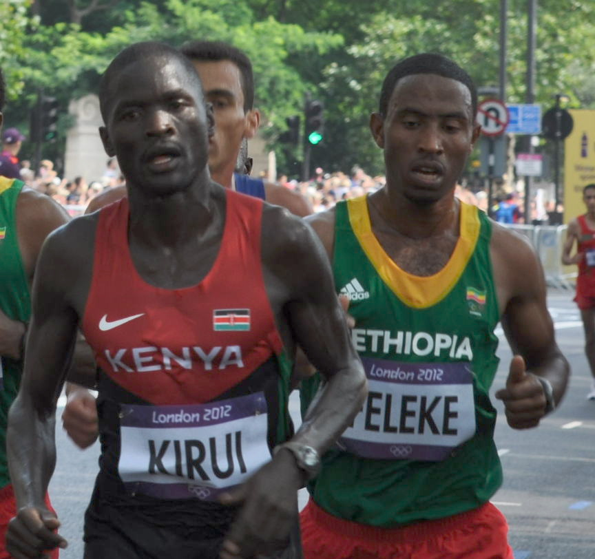 The men's marathon of the 2012 Summer Olympics in London, UK took place on an Olympic marathon street course on Sunday 12th August 2012 at 11:00. This was the final day of the 30th Olympic Games. Abel Kirui, Getu Feleke